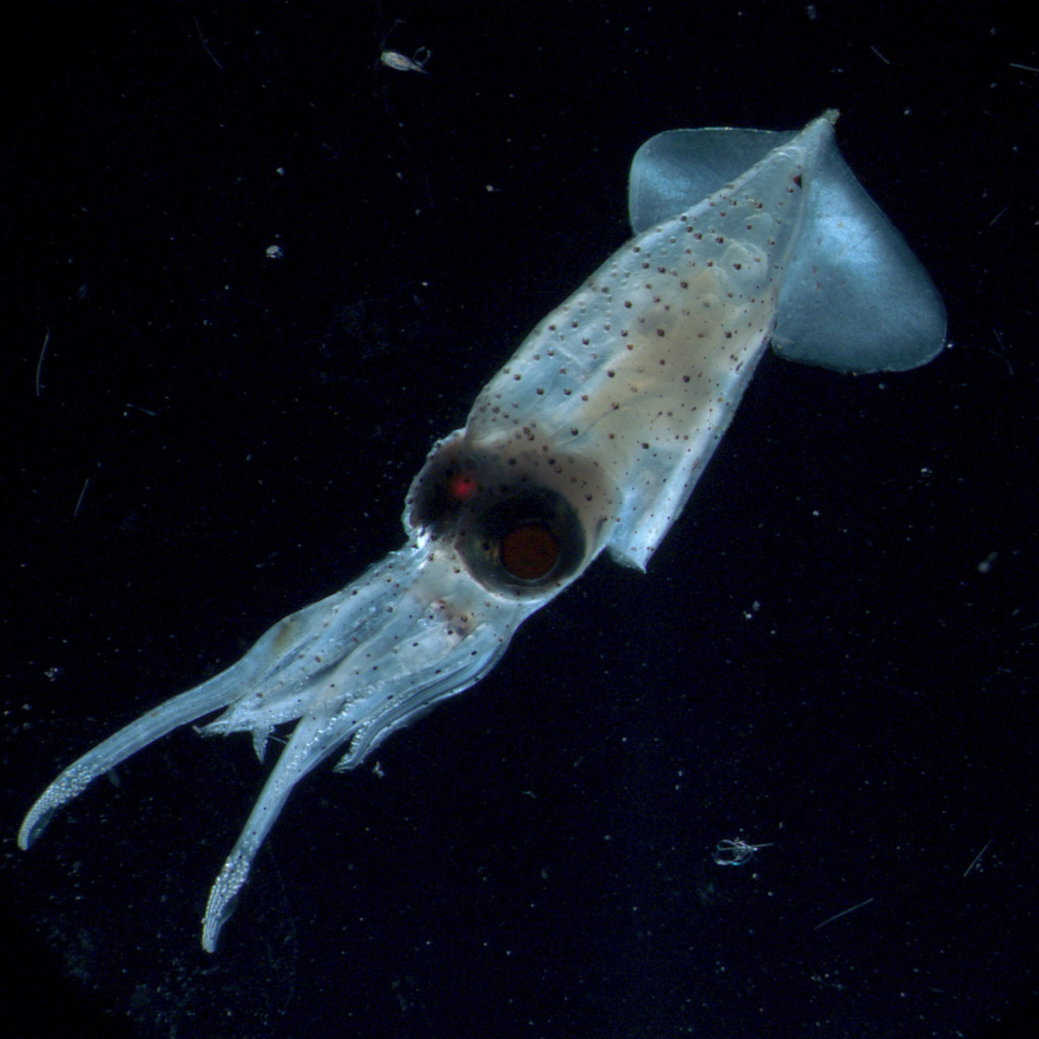 Enoploteuthis sp. Philippine Islands, Celebes Sea